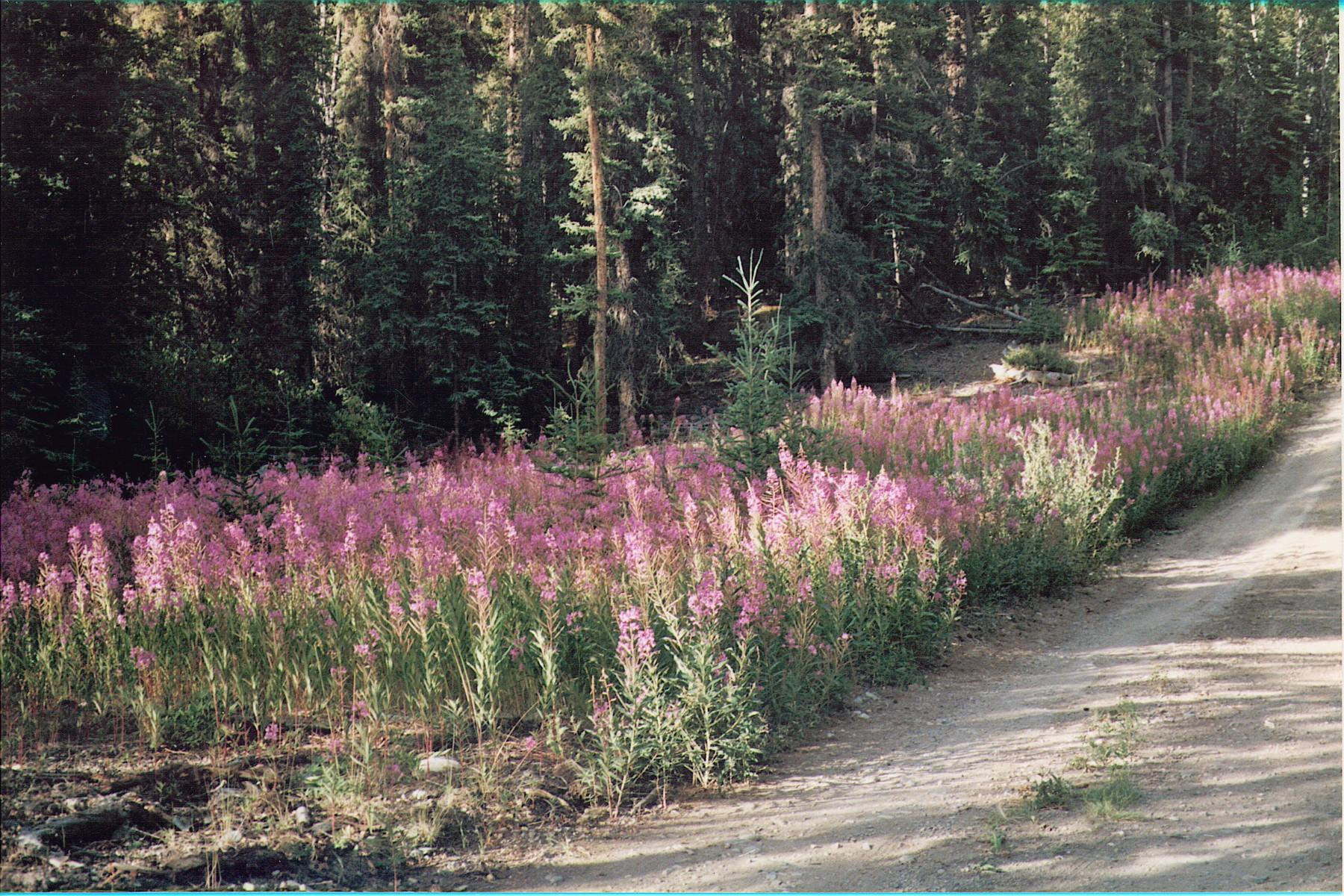 Picture of Fireweed (Epilobium angustifolium) with a background of White Spruce (Picea glauca) taken on a side road off the Klondike Highway (between Whitehorse and Carcross) in the Yukon. Taken by Luigi Zanasi in August 2001.